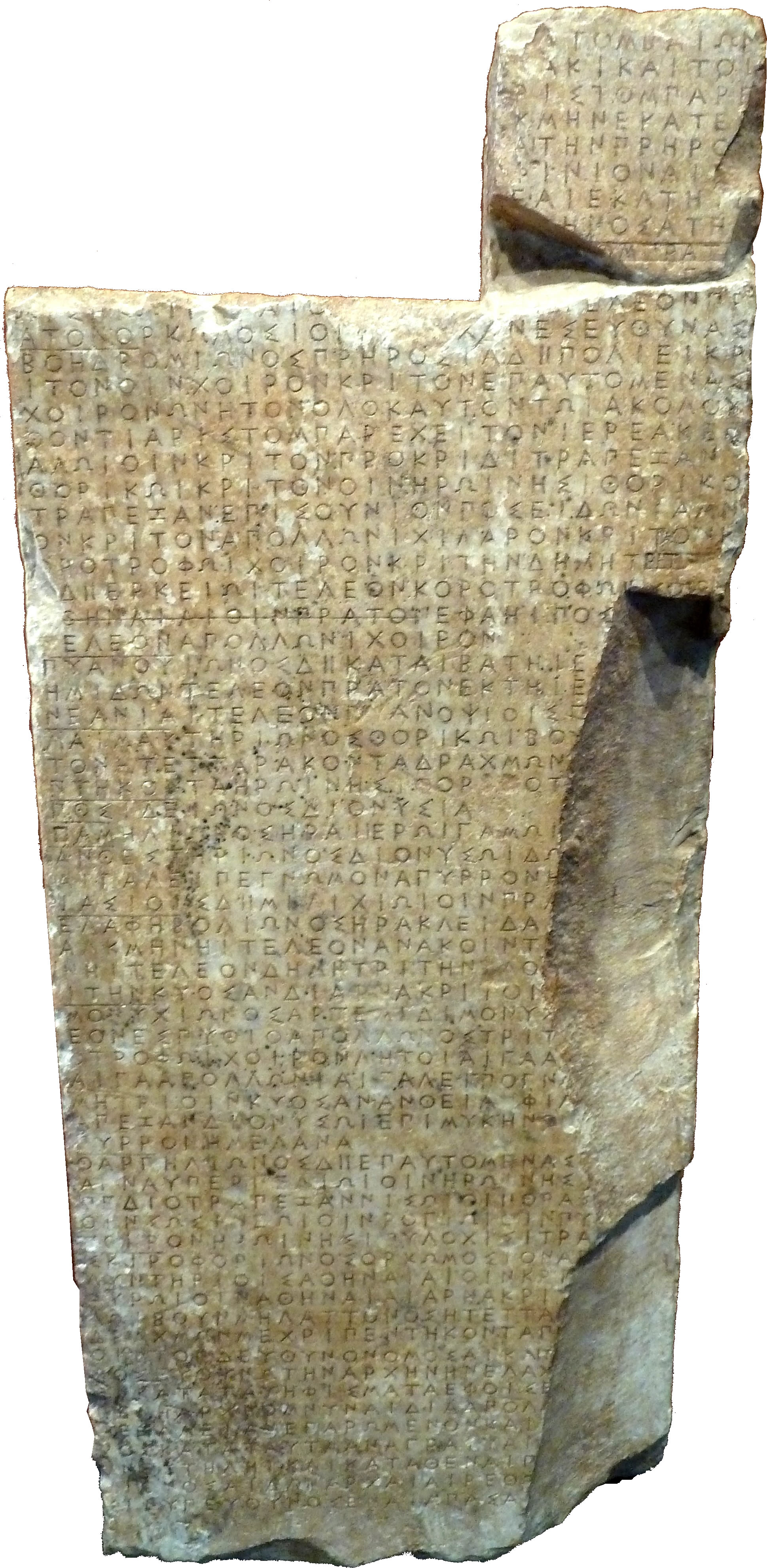 Religious Calendar of Thorikos (Greek, 440-430 BC) - Listing sacrifices and offerings to be made each month. E.g., in Anthesterion (February) a tawn or black baby goat is to be sacrificed to Dionysos.